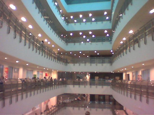 The inside view of the six-story GMIS campus.